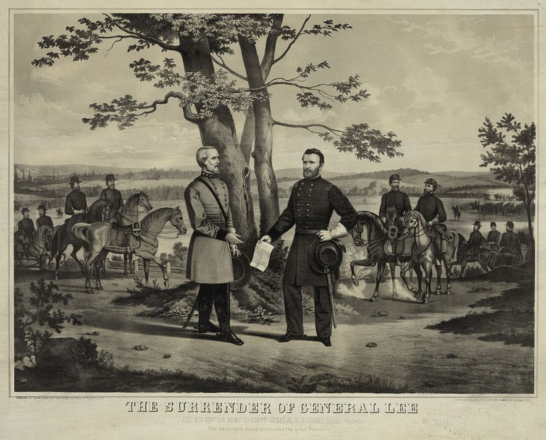 This image provided by the Library of Congress shows an artists rendering of the surrender of Confederate General Robert E. Lee to Union General Ulysses S. Grant